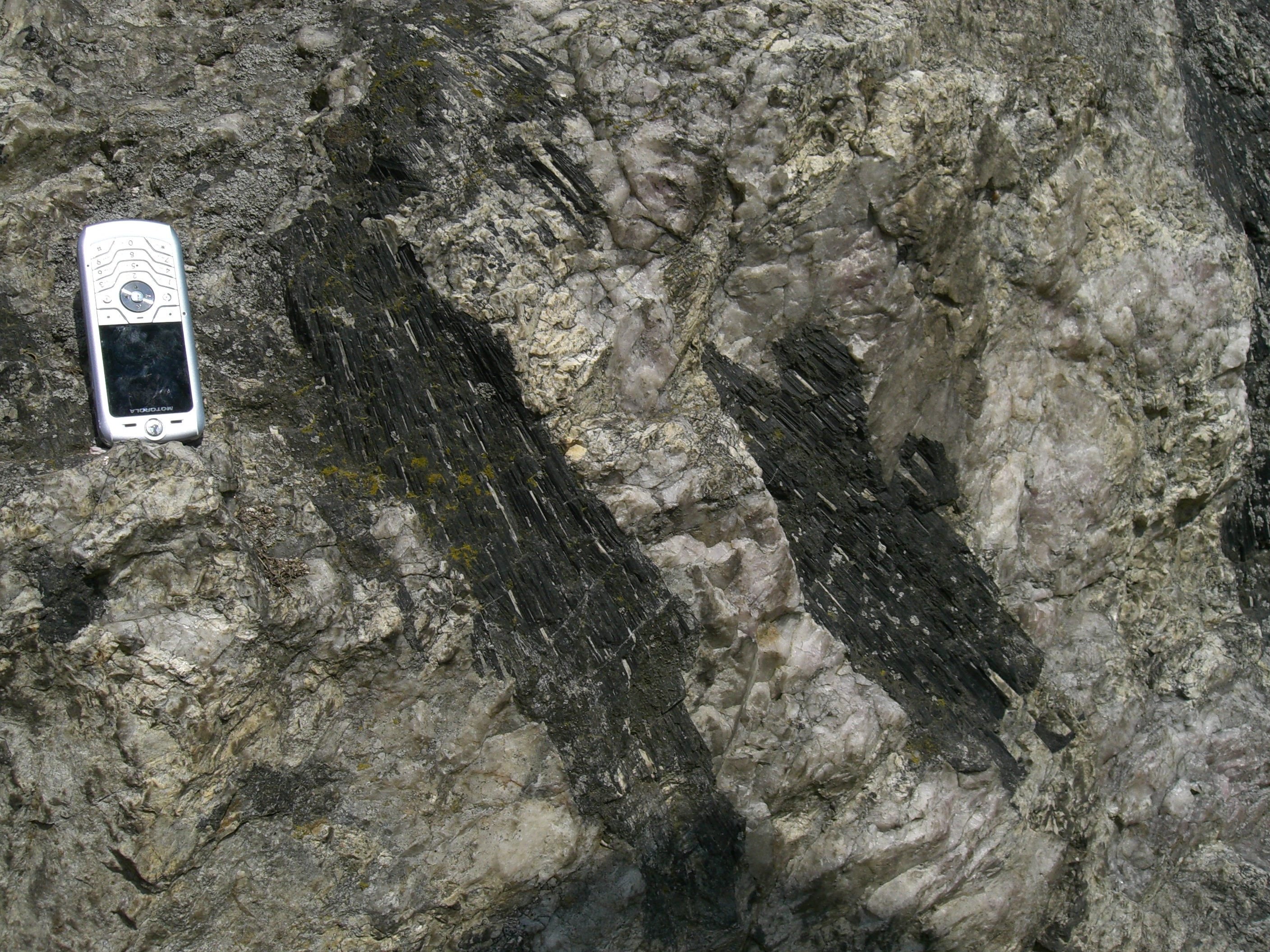 Protected area Myšenecká slunce in Myšenec village, Písek district, Czech Republic. In the location is big crystals of skoryl.